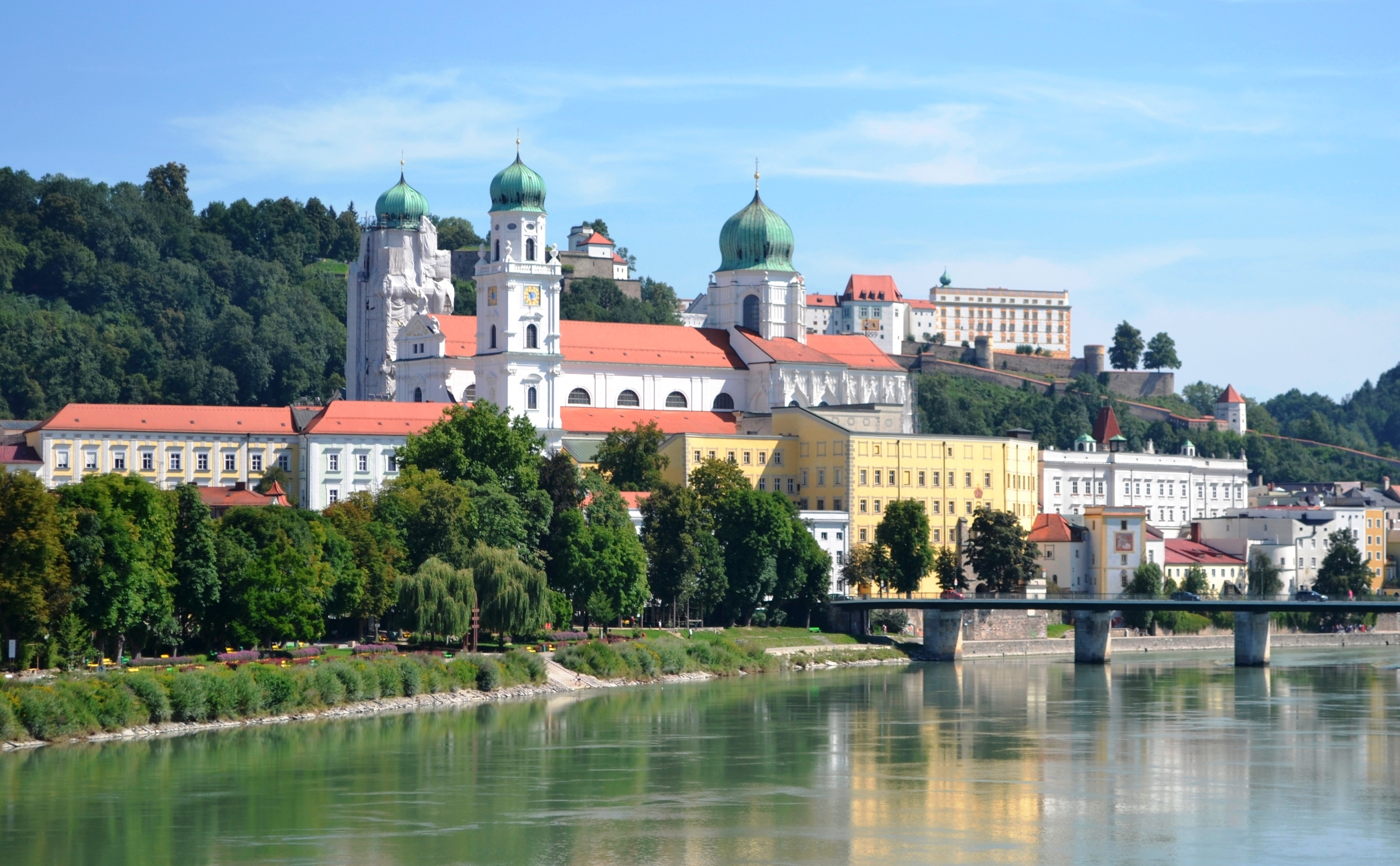 Passau, Inn River, Cathedral and the Oberhaus